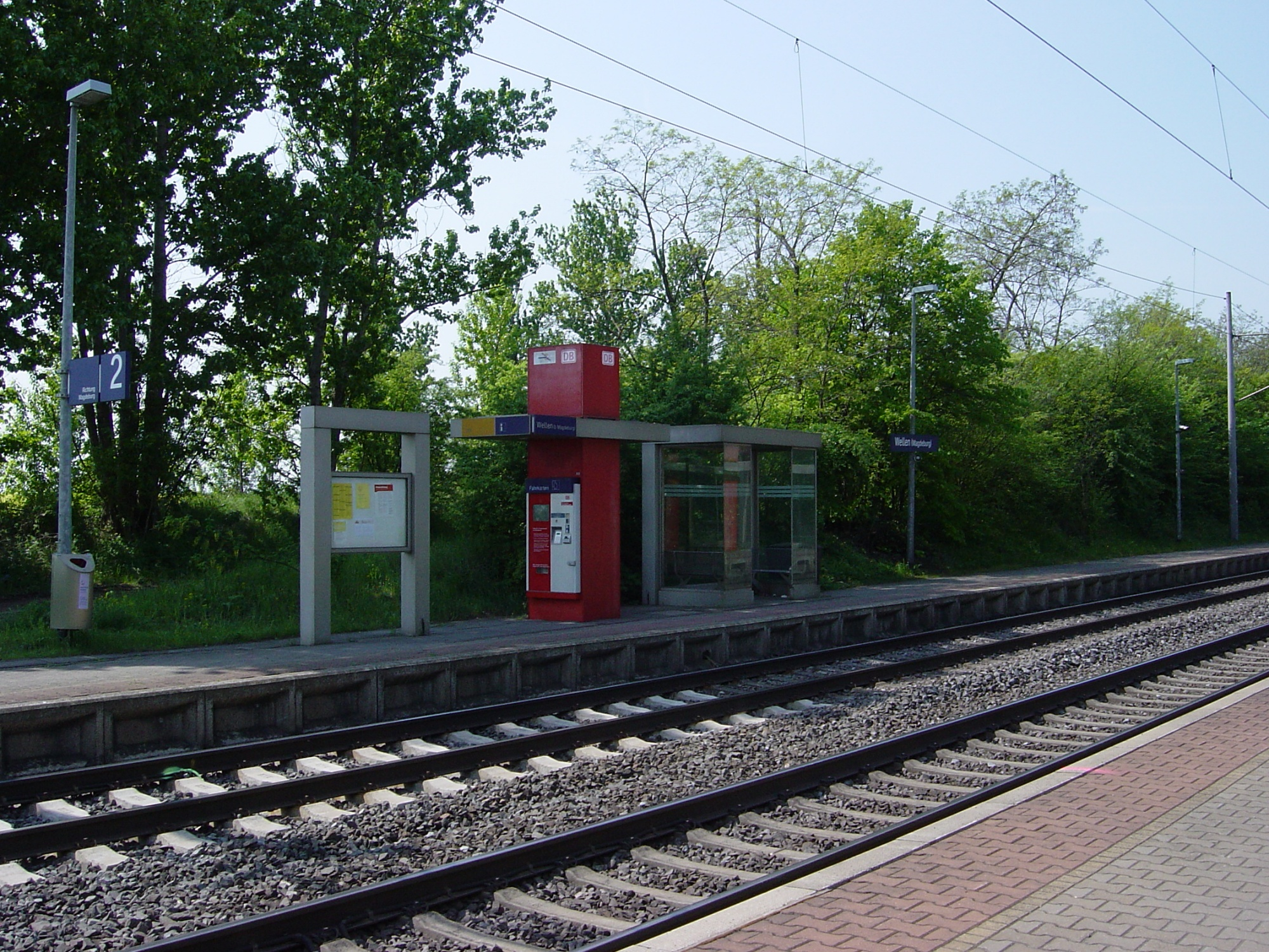 Railway station Wellen (b Magdeburg)